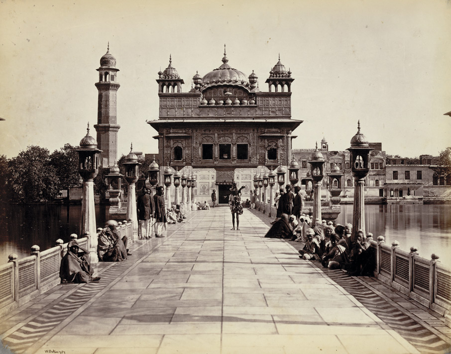 Entrance to the Golden Temple, Amritsar